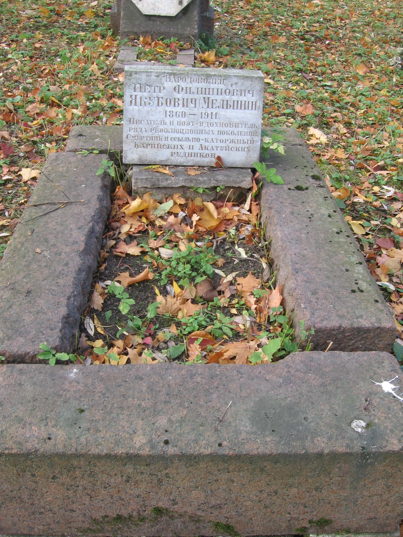 Grave of Pyotr Yakubovich